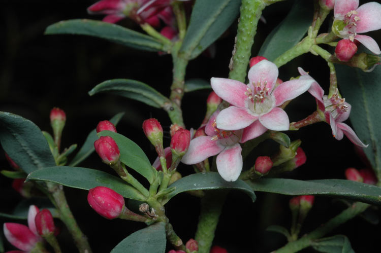 Philotheca myoporoides subsp. myoporoides in the Australian National Botanic Gardens, A.C.T.